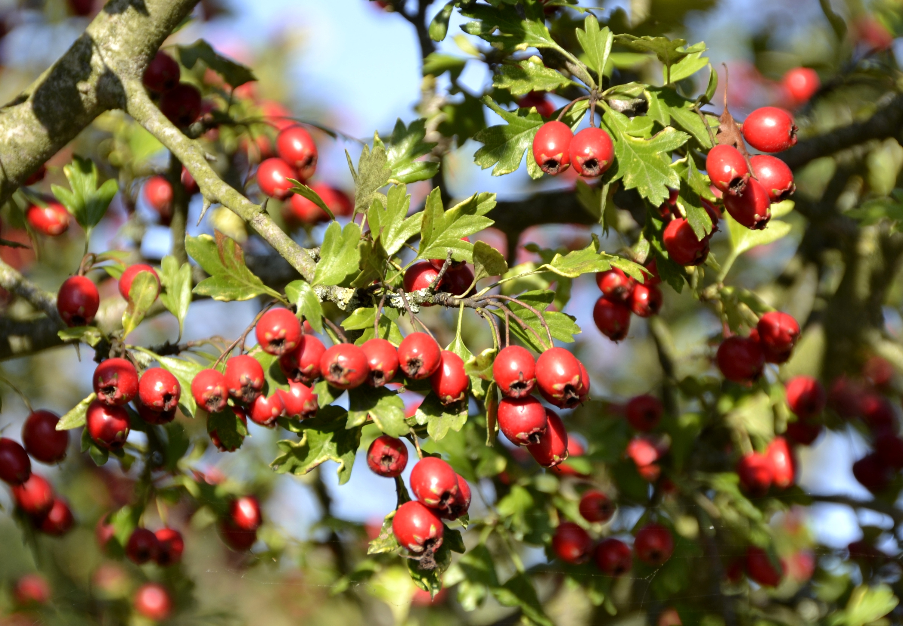 Hawthorn fruits in late Summer 2012.